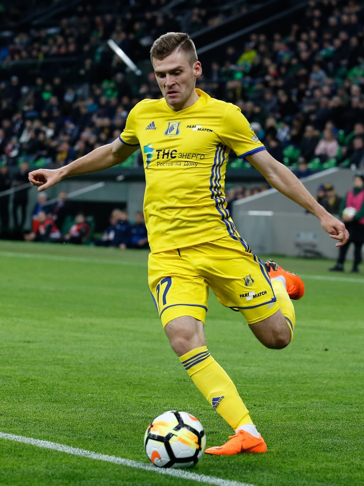 Dmitri Skopintsev with FC Rostov in a game against FC Krasnodar.